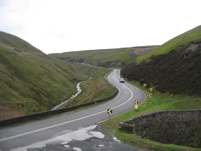 Snake Pass. The Snake Pass is the name of the A57 road where it crosses the Peak District between the town of Glossop and the Ladybower reservoir. The name of the road matches its winding route, but originally derives from the emblem of the Snake Inn which is one of the few buildings on this high stretch of road. The Snake Inn has been renamed the Snake Pass Inn, so the pub is now named after the pass which was originally named after the pub!